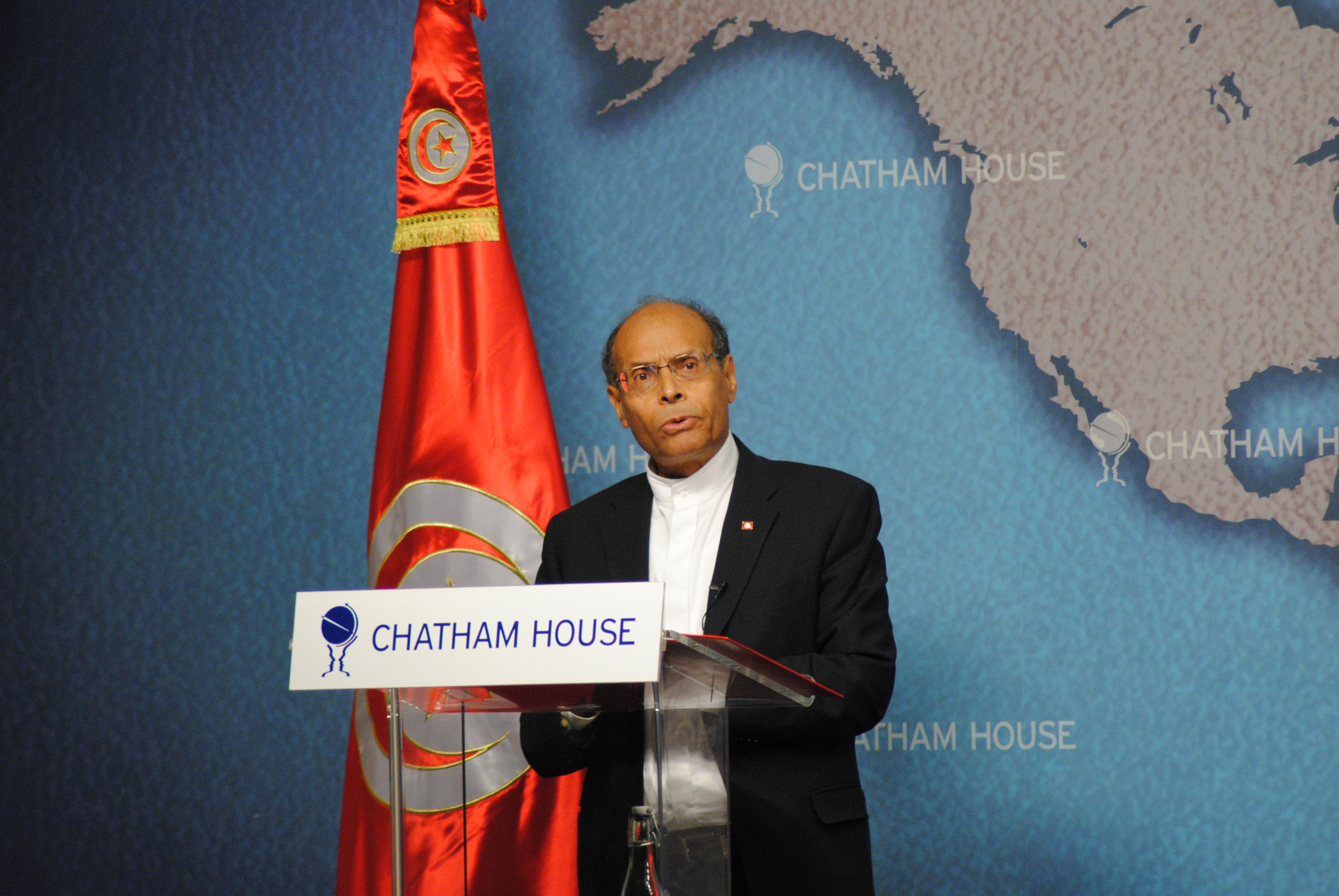 Moncef Marzouki speaking after receiving the Chatham House award 2012